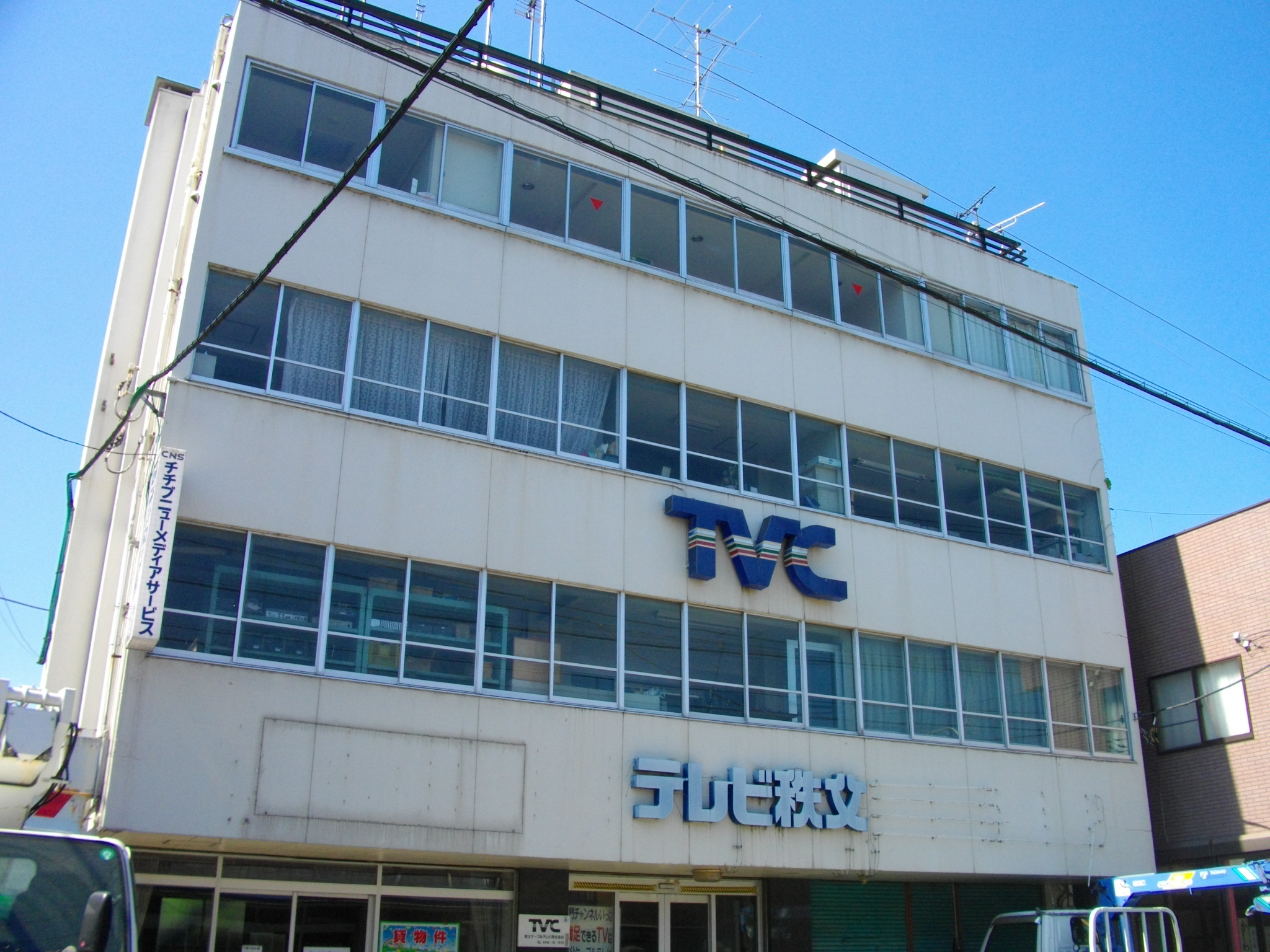 Chichibu Cable TV Head Office